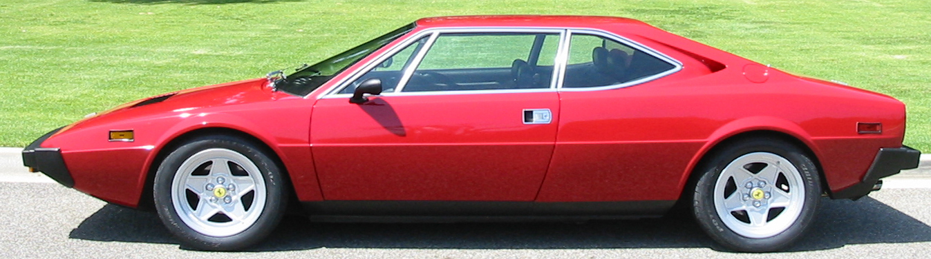 Photo of the best side view of an North American Version of the 1975 Ferrari Dino 308 GT4